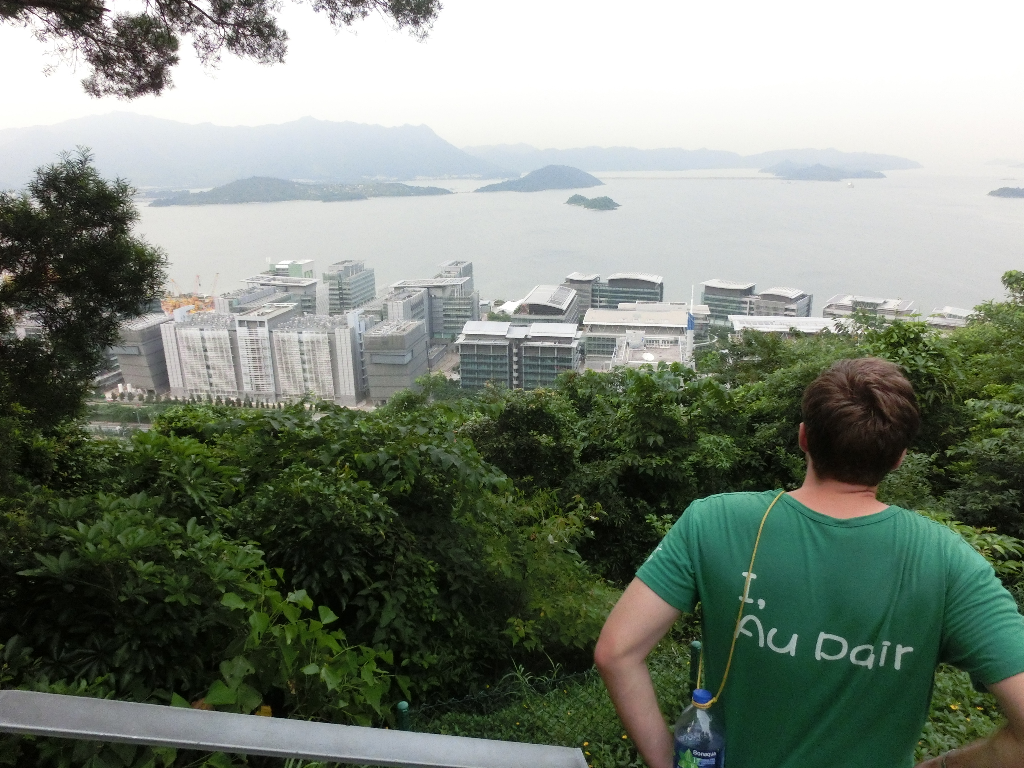 HK CUHK 中文大學 Tai Po 大埔 Ma Liu Shui 新亞書院 New Asia College in August 2013